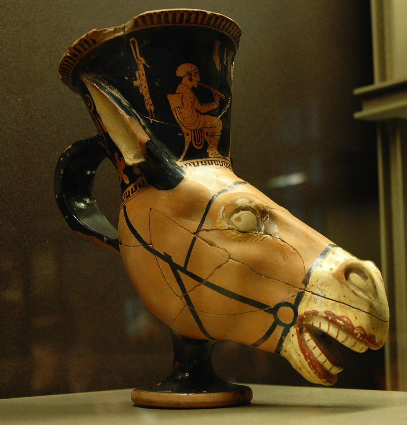 Plastic rhyton in the shape of a donkey's head, representing a musician and a dancer, ca. 470 BC–460 BC. From Athens.